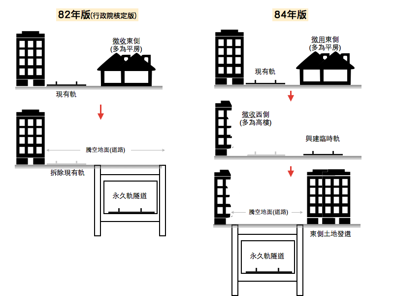 Comparison of Tainan Railway Underground Project 1993 & 1995